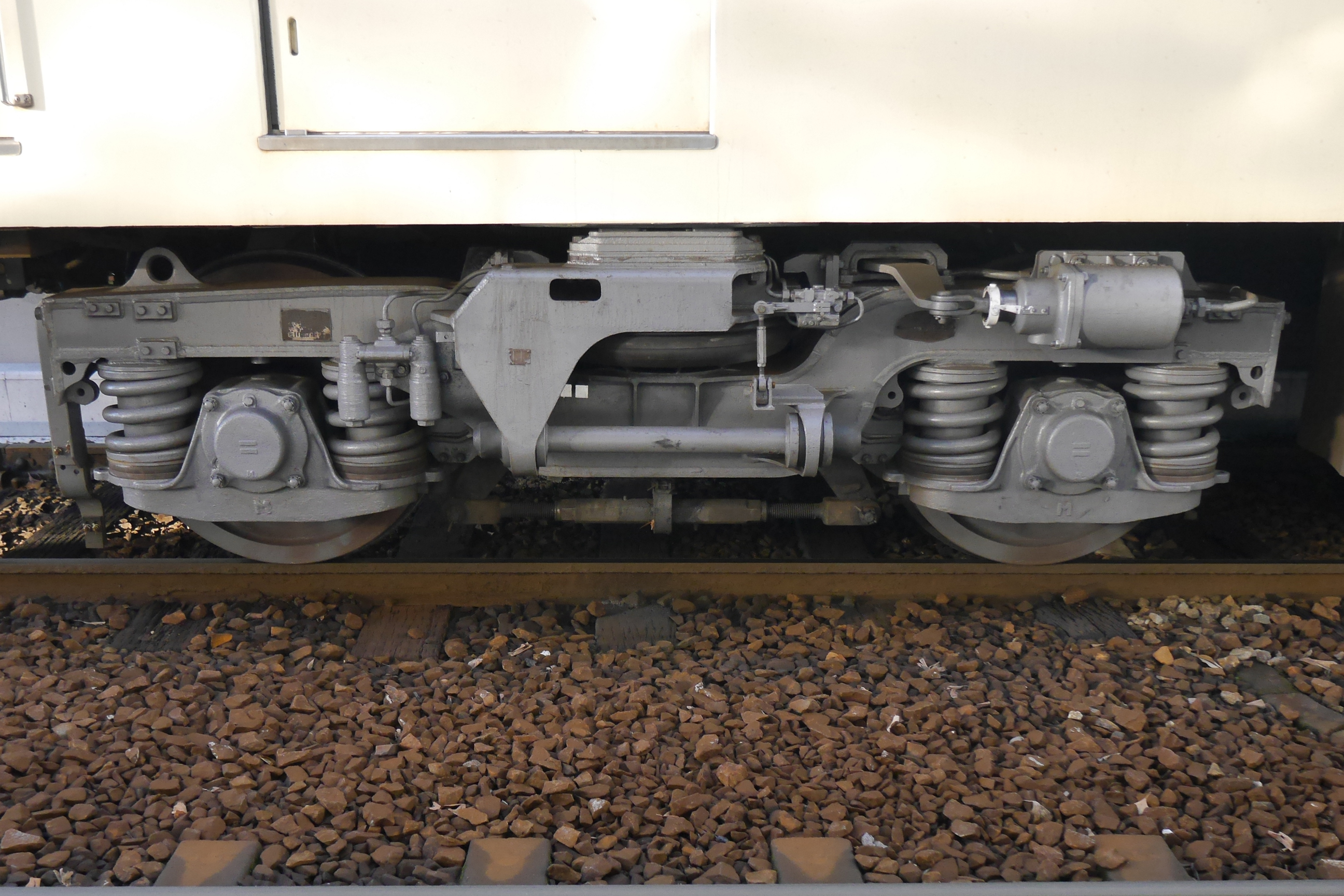 KW-31 bogie truck on Eizan Railway Deo 711 driving motor car